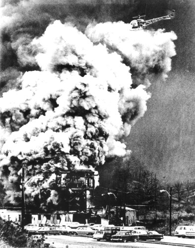 Fire and smoke pouring from the Consol No. 9 mine in Farmington, West Virginia following an explosion. Geolocation based on assumption that this is the Llewellyn Run portal; location inferred from mine maps and local topography.